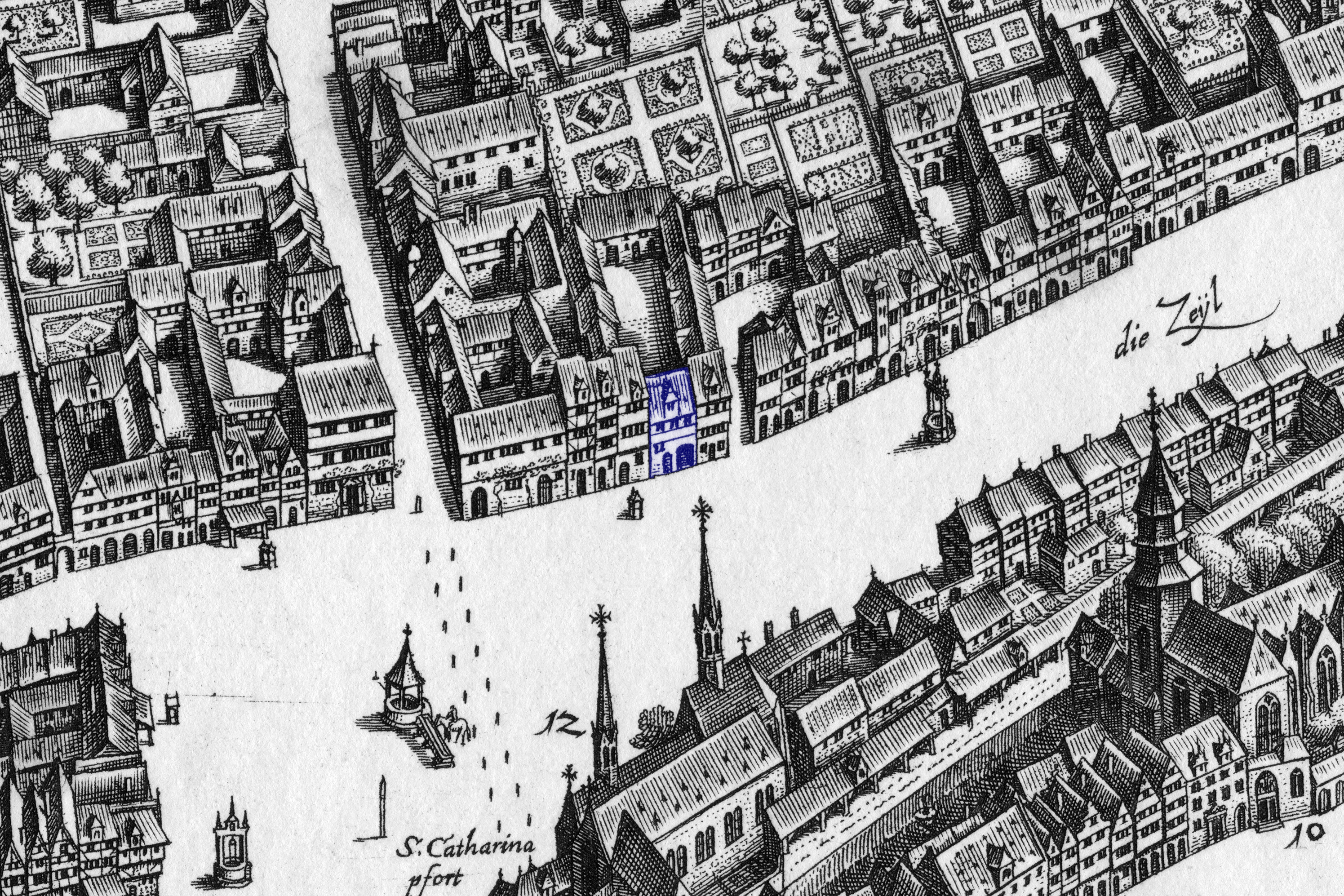 Frankfurt on the Main: Detail of Merian's plan of 1628 with the ending of the Zeil and today's square An der Hauptwache (At the Hauptwache), the assumable frontal building of the Weidenhof is highlighted in blue